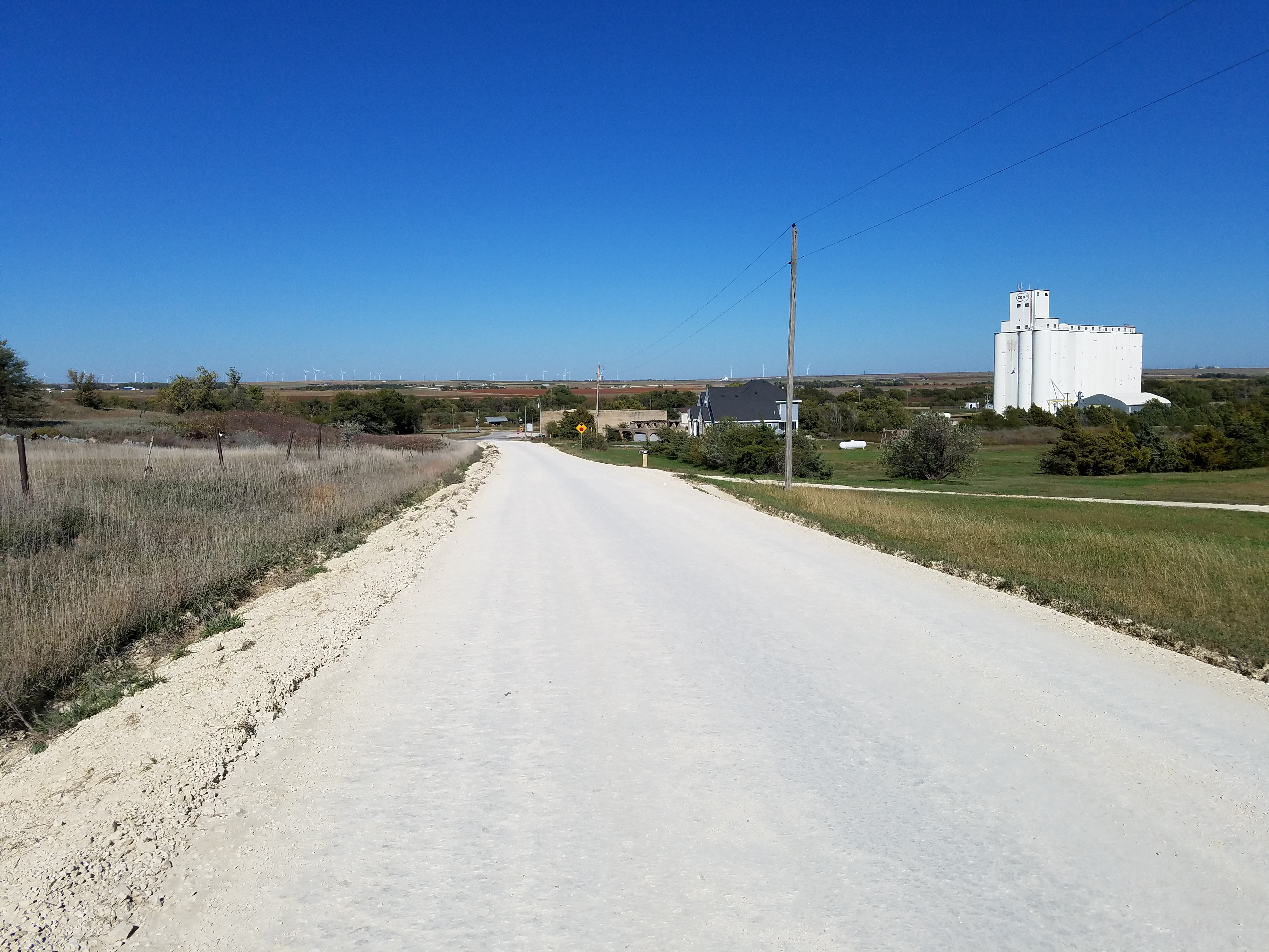 Yocemento - from the south, with remnant concrete buildings of the mill.